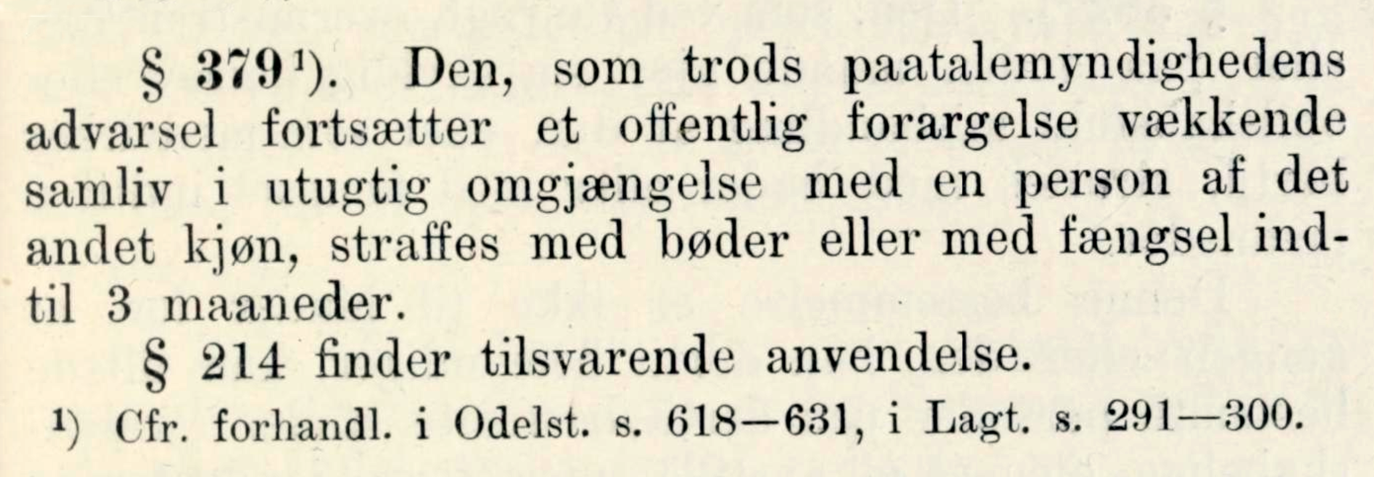 Norwegian Penal Law of 1902